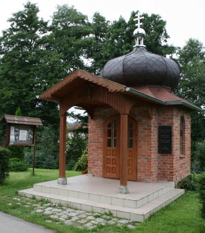 Greek Catholic chapel in Żywkowo